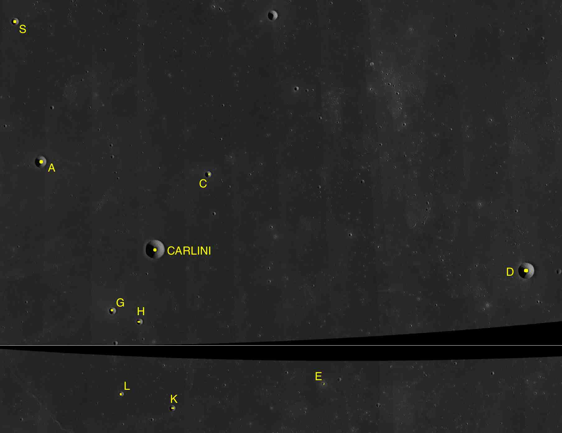 Parts of the charts LAC-24 and LAC-40 used for the presentation